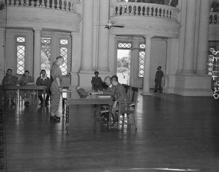 12 September 1945: General Ichida Jiro (Acting Chief of Staff Burma Area Army) formally surrenders to Brigadier E.P.E. Armstrong (Chief of Staff to Lt-General Sir Montague Stopford, GOC-in-Chief 12th Army Burma) at Government House, Rangoon.